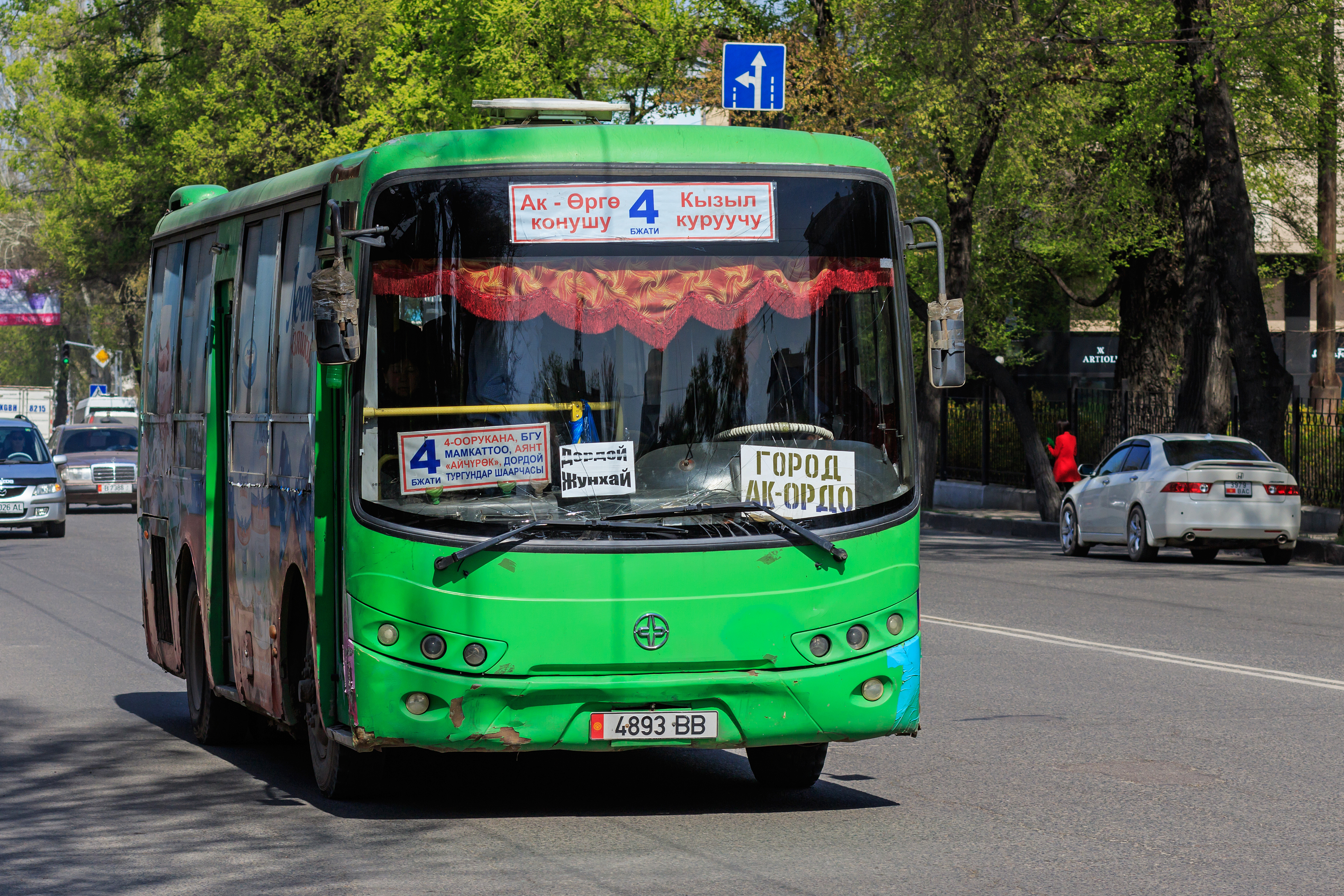 Bus at Yusup Abdrahmanov Street in Bishkek, Kyrgyzstan